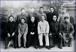 The first session of Chinese People's Political Consultative Conference (CPPCC)was held in September,1949. This is a photo of the third group of ethnic minority delegates. Front row (left)- Zhu Dehai, Wang Guoxing, Kui Bi, Zhang Chong, Wu Hongbin, Jin Hanwen. Back row（left)- Tian Bao, Liu Geping, Duojie Caidan, Yang Jianren, Bai Shouyi, Zhu Zaoguan.